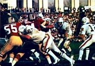 A football card from the 1986 Jeno's Pizza NFL football card stickers set of Miami Dolphins running back Jim Kiick rushing the ball against the Washington Redskins in Super Bowl VII. The card is numbered #33 in the set. The back of the card reads: IT WAS THE END OF A PERFECT SEASON Miami running back Jim Kiick follows guard Bob Kuechenberg (67) through a big hole, as the Dolphins beat Washington in Super Bowl VII. Miami's 14-7 victory over the Redskins completed the only perfect-record season in NFL history. Don Shula's team finished 17-0.